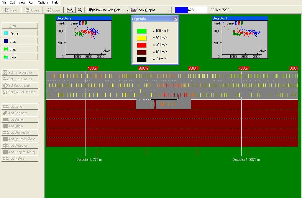 Screenshot of a self-made computer program (traffic model Simone). An example of a freeway simulation model.